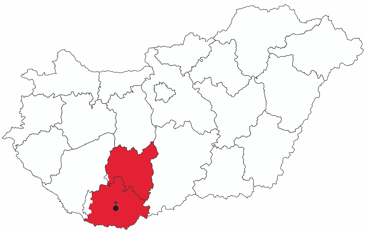 Map of the Roman Catholic Diocese of Pécs, Hungary.